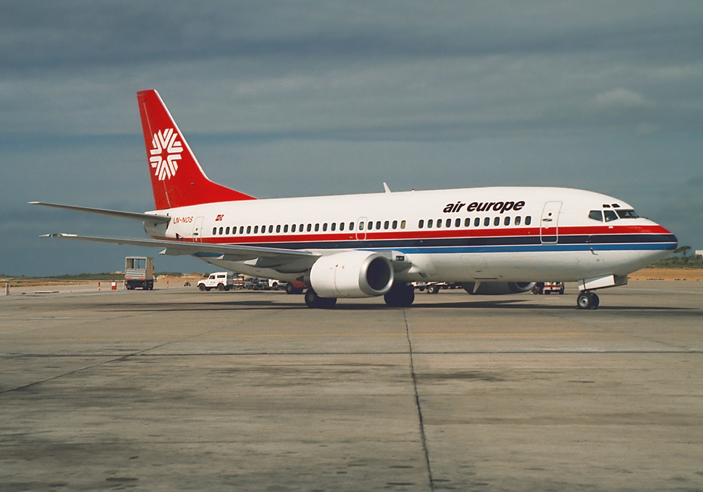 Norway Airlines Boeing 737-33A LN-NOS at Faro Airport with "Air Europe" name